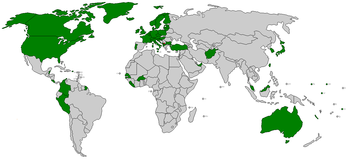 Recognition of the Republic of Kosovo by the end of 2008